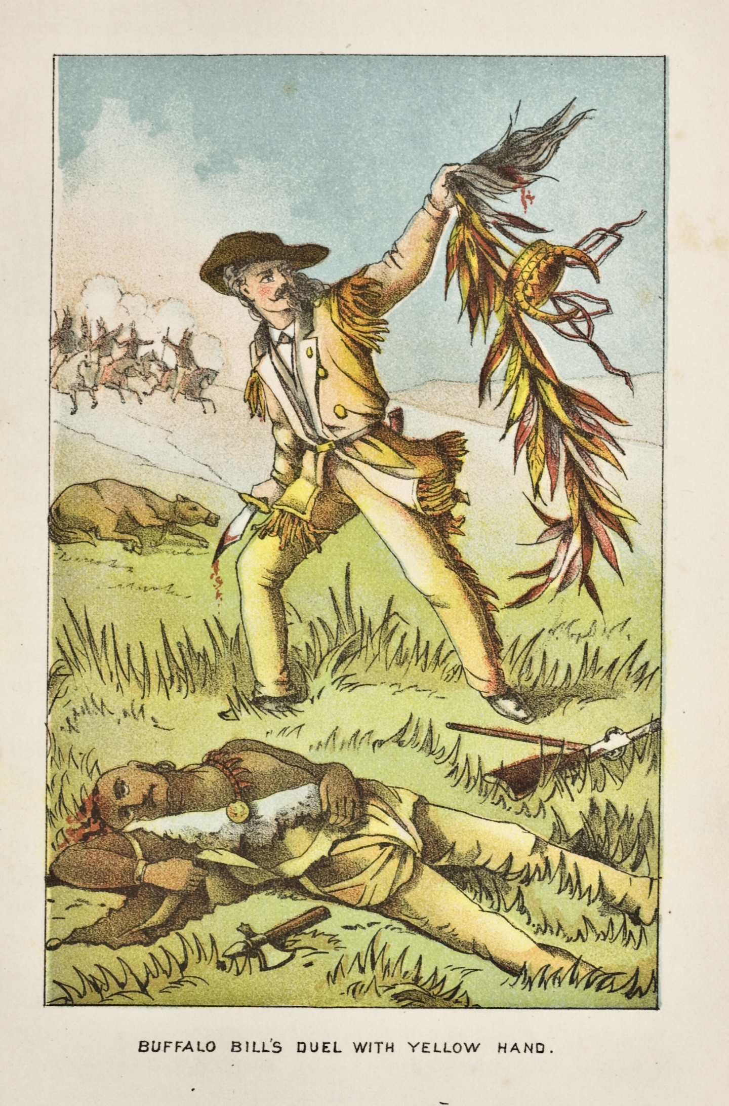 Buffalo Bill's Duel with Yellow Hand, 1881. Published in Heroes of the Plains, or, Lives and Wonderful Adventures of Wild Bill, Buffalo Bill ... and Other Celebrated Indian Fighters ... Including a True and Thrilling History of Gen. Custer's Famous "Last Fight"